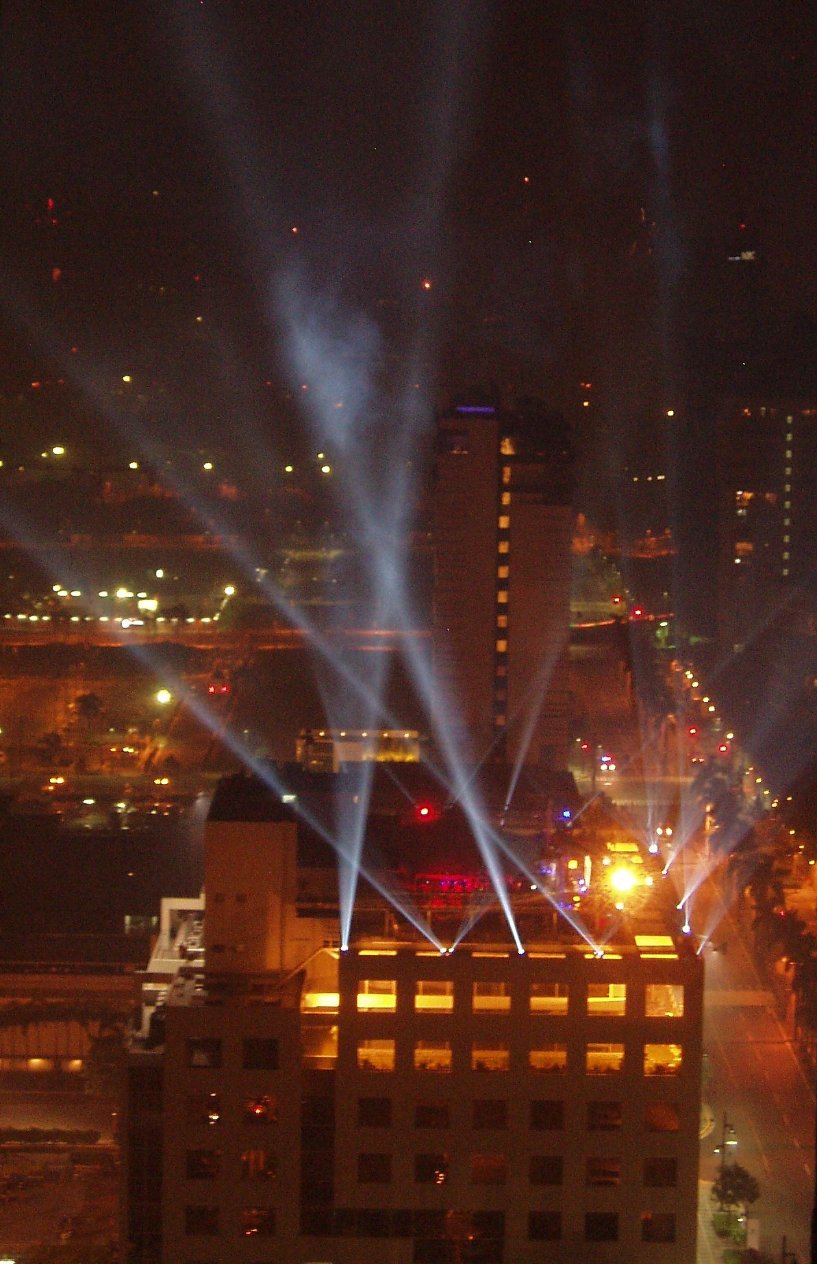 Searchlights at New Year's Eve from the roofdeck of the W Office Building at Bonifacio High Street in Bonifacio Global City, Metro Manila, Philippines.